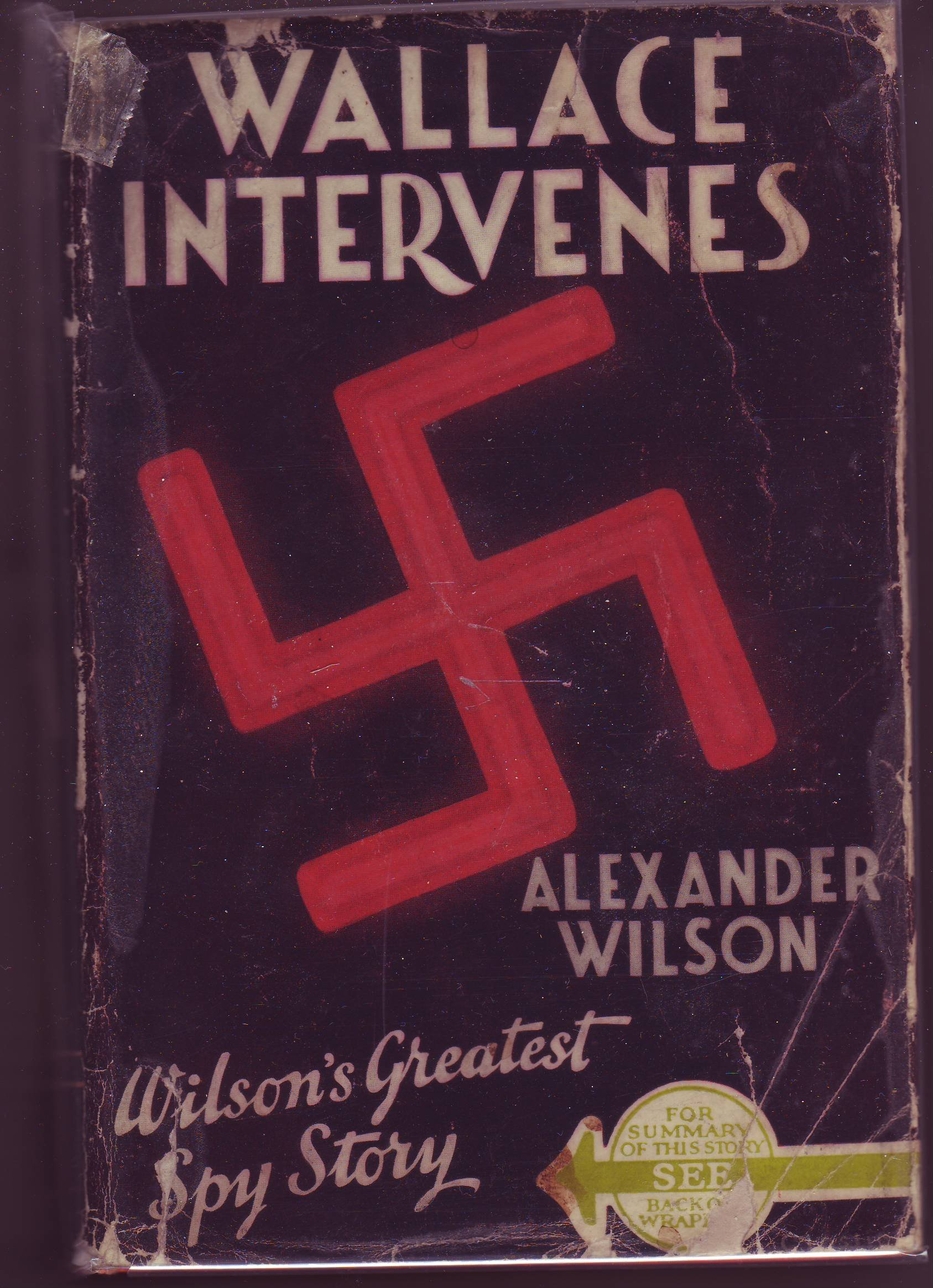 A scan of the front dustcover of the spy novel 'Wallace Intervenes' by Alexander Wilson published in 1939.